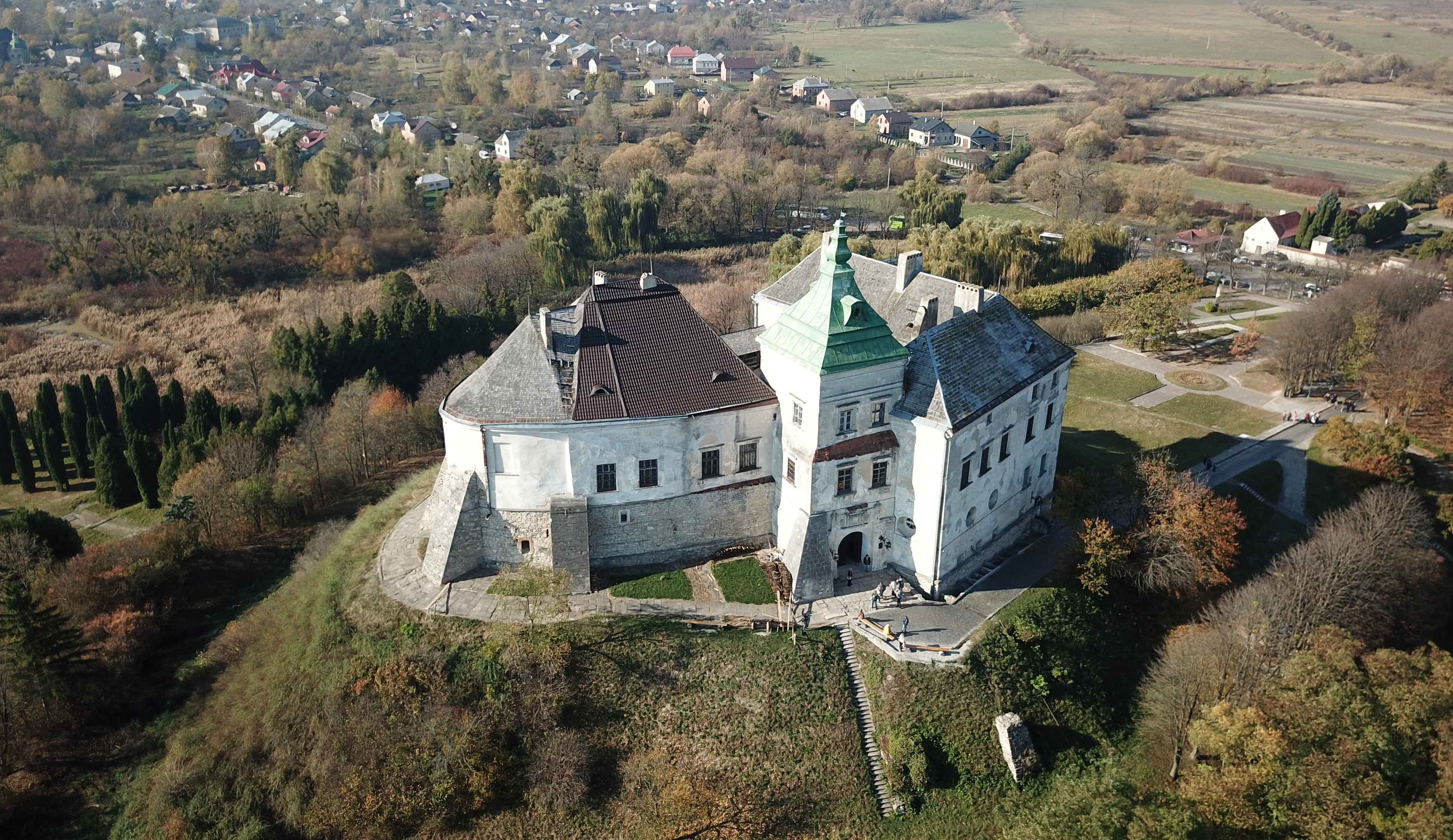 Aerial view of Olesko Castle (Olesko, Lviv Region, Ukraine)